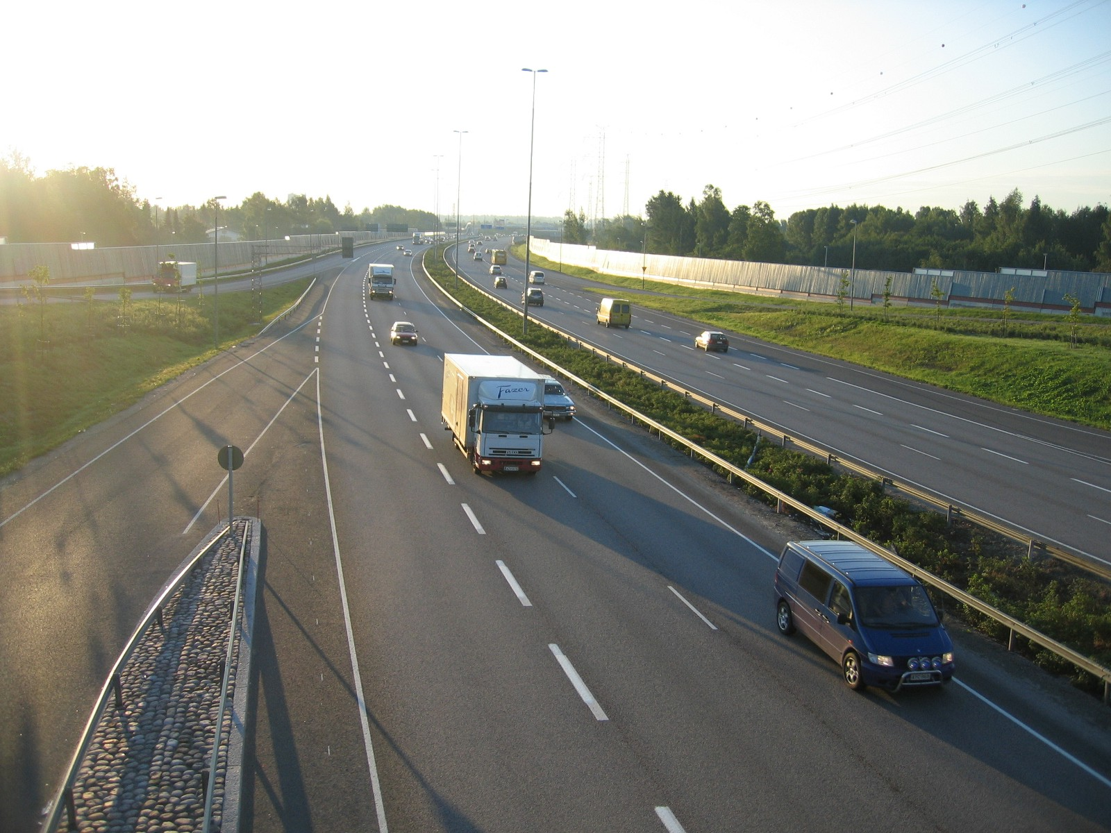 Ring Road III (national road 50, E18) towards Tikkurila in Vantaa, Finland.